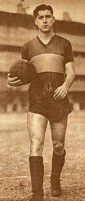 Ernesto Lazzatti playing for Boca Juniors